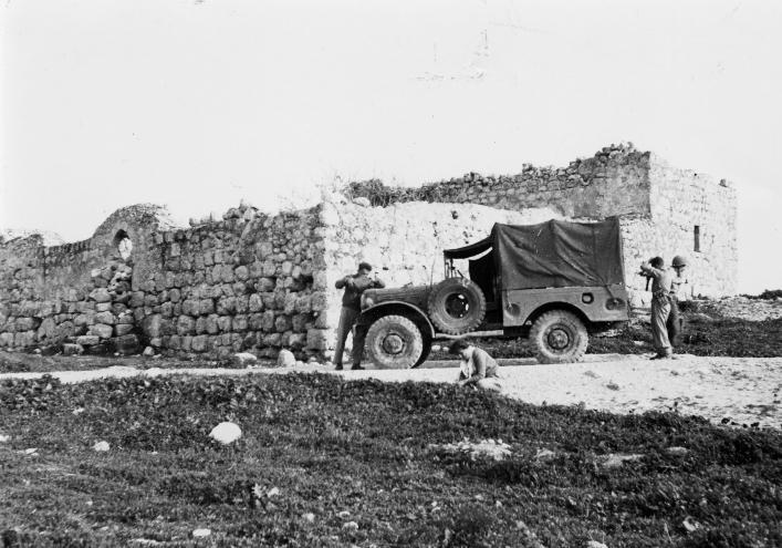 Harel Brigade position on road from Beit Shemesh to Deir 'Amr during Operation Ha-Har, 1948